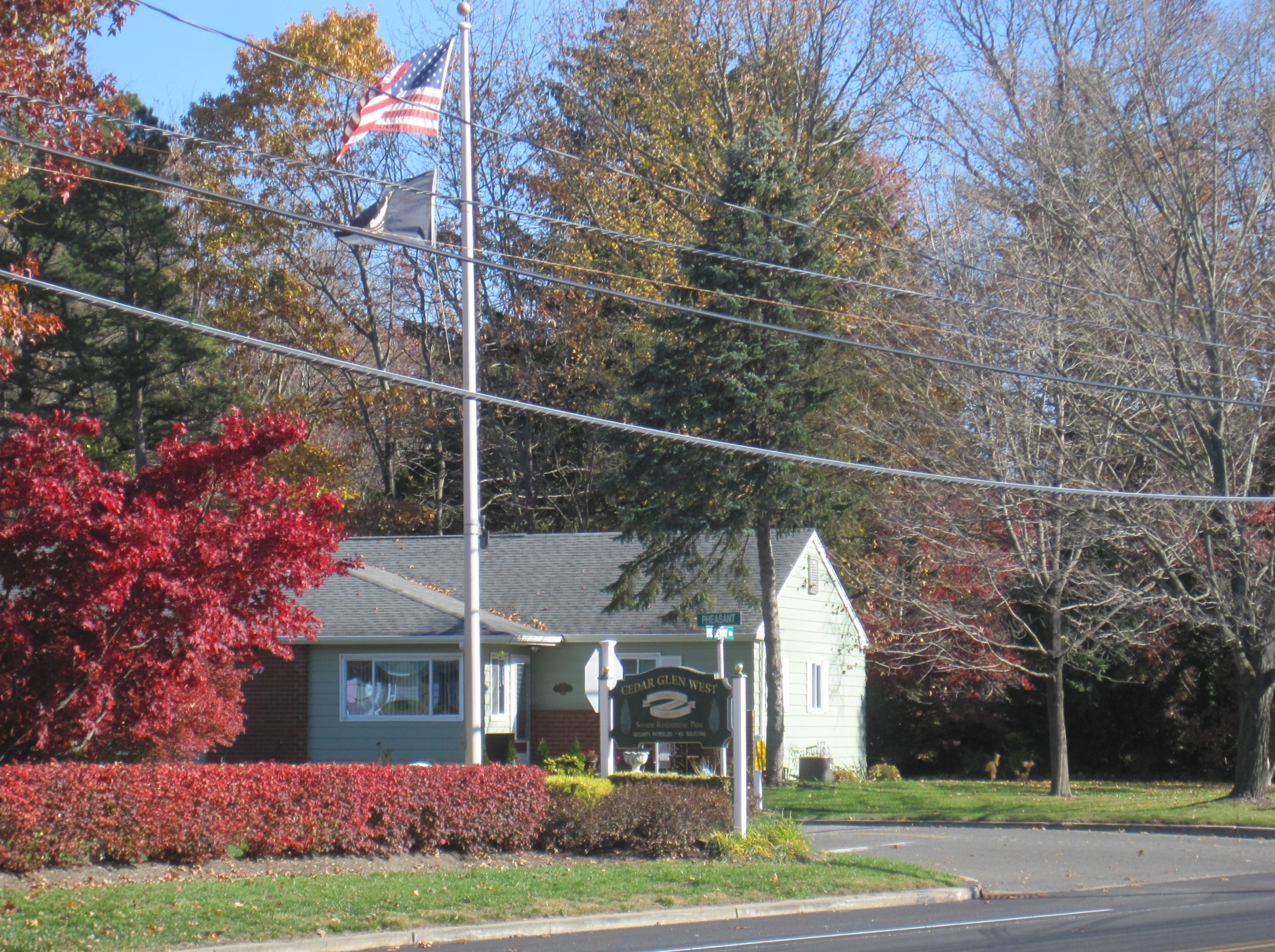 Photograph showing Cedar Glen West, New Jersey, a census-designated place within Manchester Township. Photo taken from Ridgeway Road (County Route 571) at its intersection with Pheasant Street.